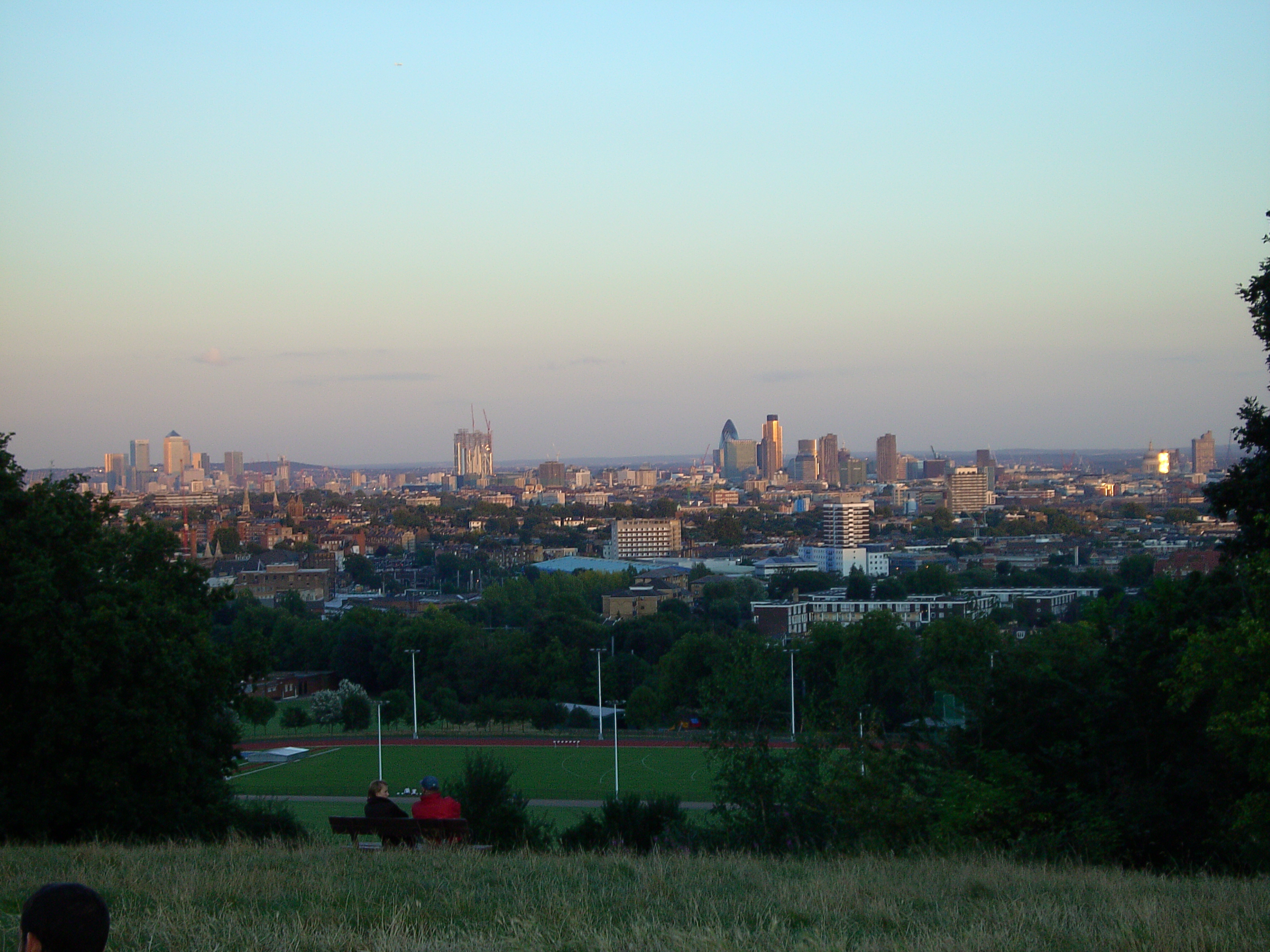 View towards Central London from the top of Parliament Hill, Hampstead Heath, London.